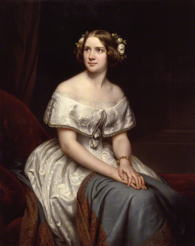 Portrait of Swedish opera singer Johanna Maria ('Jenny') Lind (1820-1887)